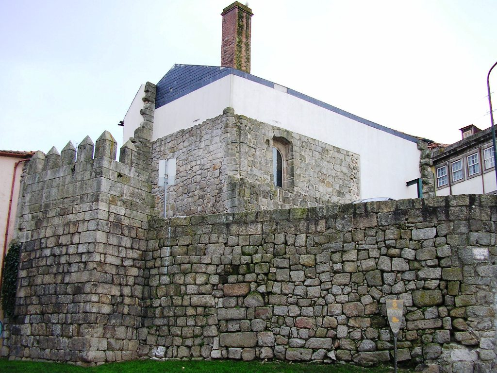 Early city walls, originaly built by the Romans, in Porto, Portugal. Author: Manuel de Sousa.